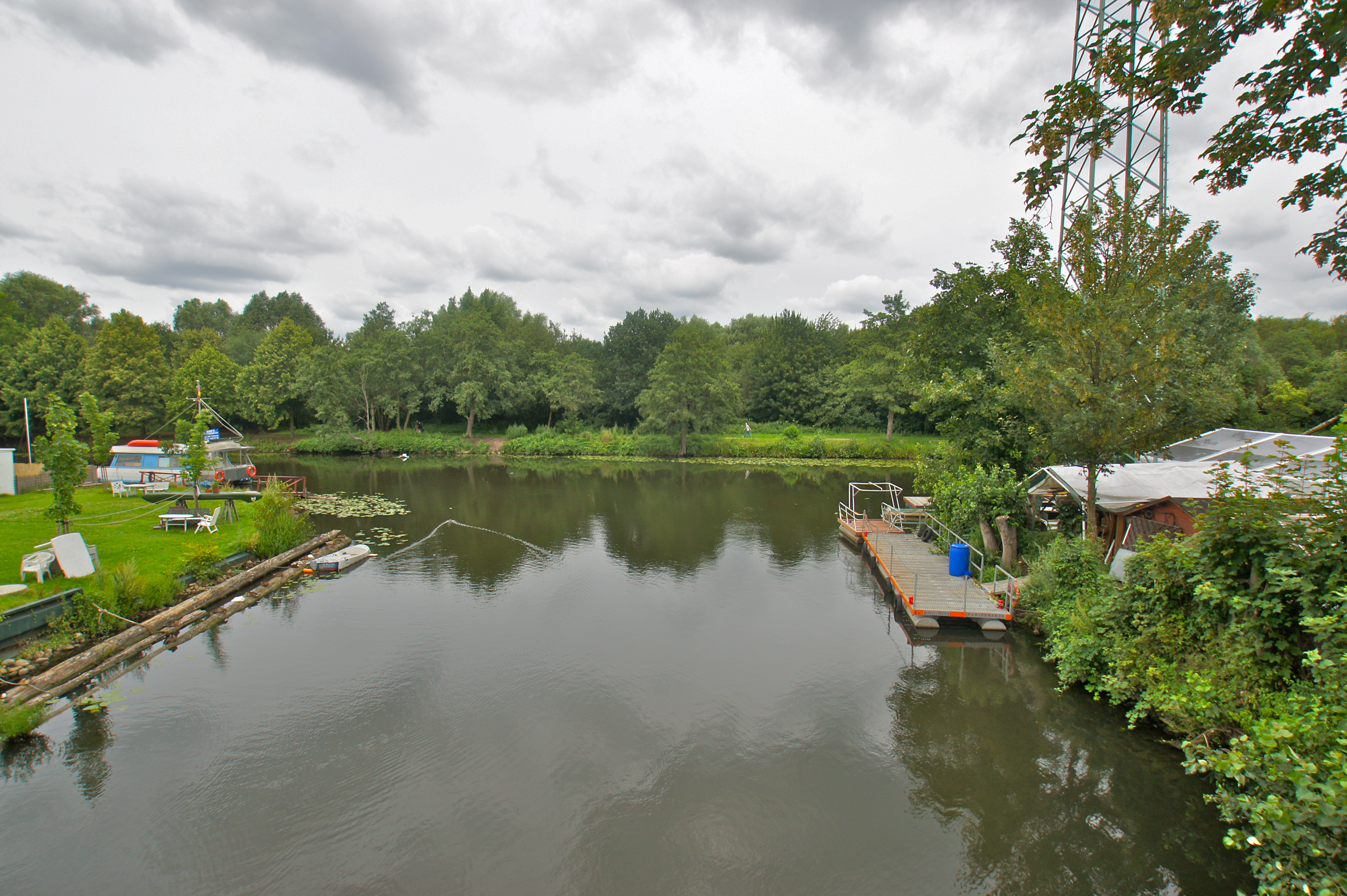 Hamburg (Wilhelmsburg), Germany: The Aßmannkanal as seen from bridge of the Vogelhüttendeich fleeds in the Ernst August Canal